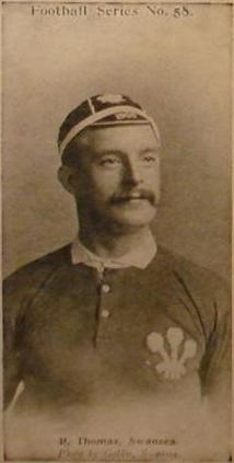 Bob Thomas, Wales and Swansea rugby union player